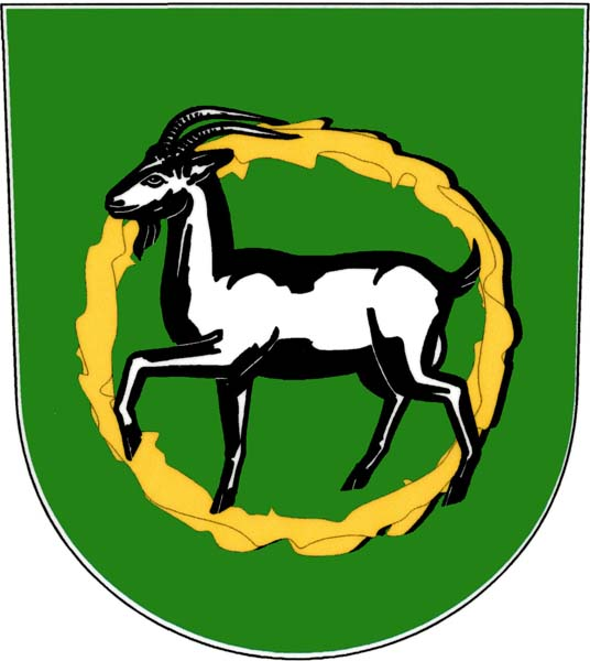 Municipal coat of arms of Kozojídky village, Hodonín District, Czech Republic.